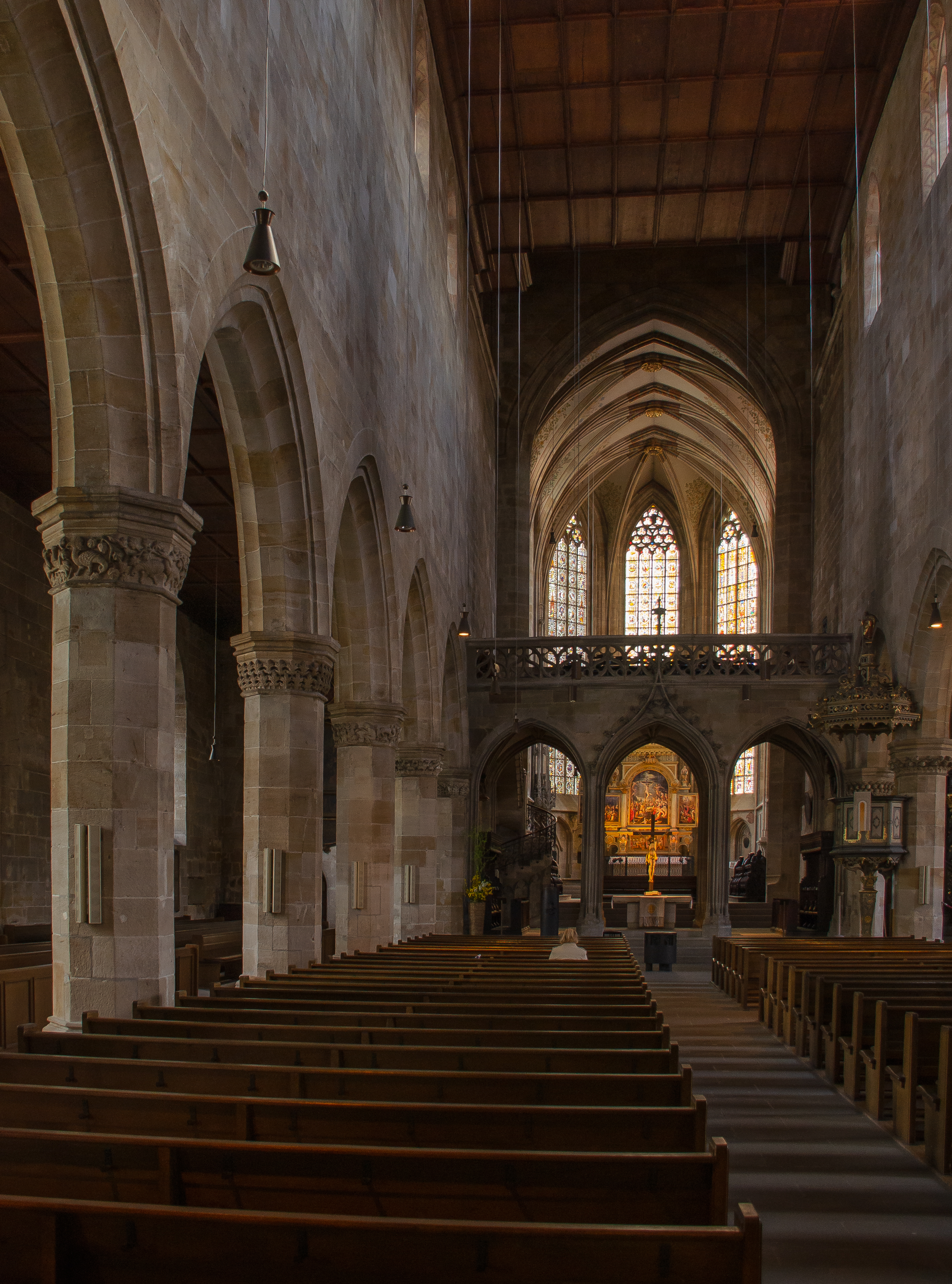 Esslingen am Neckar (Germany). Interior of the Stadtkirche